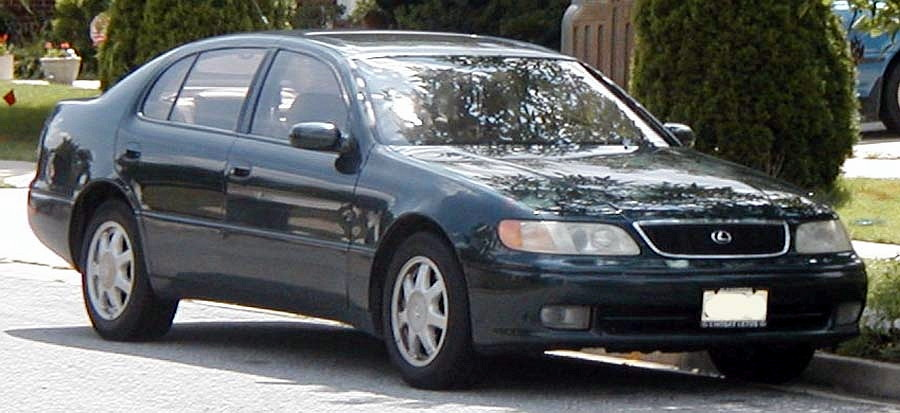 1991-1996 Lexus GS photographed in USA.